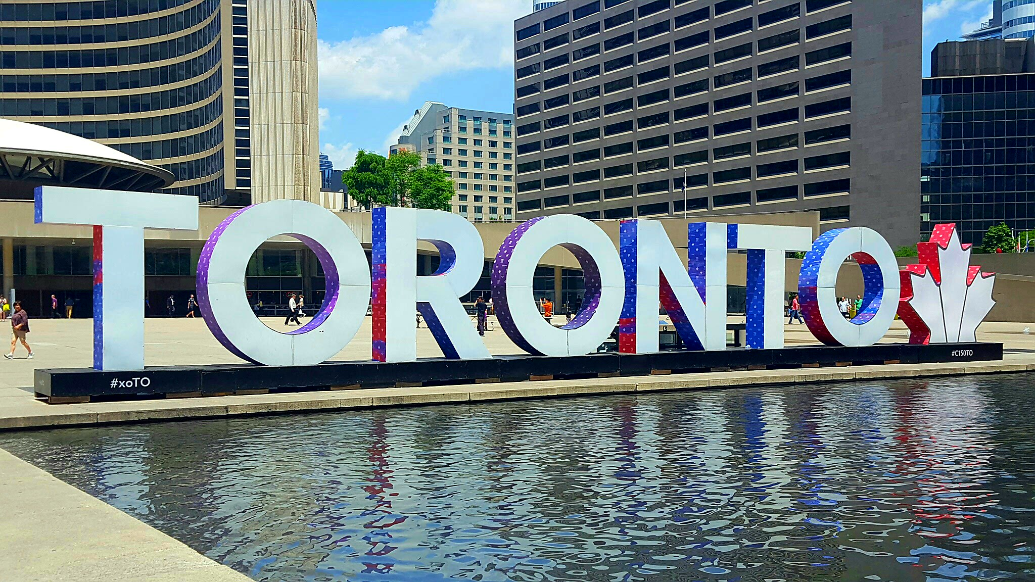 Letters of Toronto